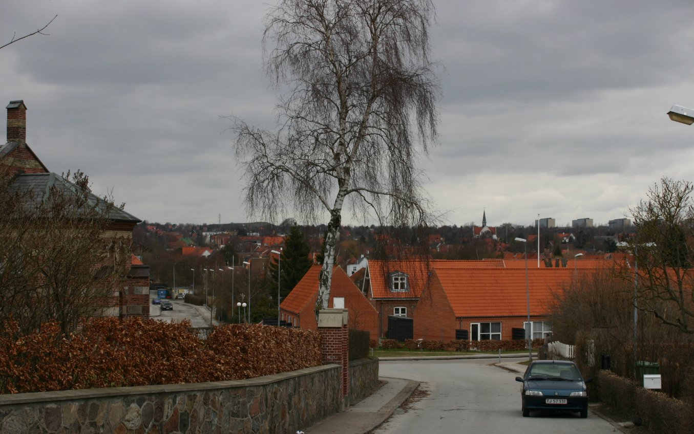 Description: A view from the southern, old part towards the new part of Aabyhøj, a suburb of Aarhus. Source: Own photo, taken in Jutland, Apr 2006. Author: Sten Porse